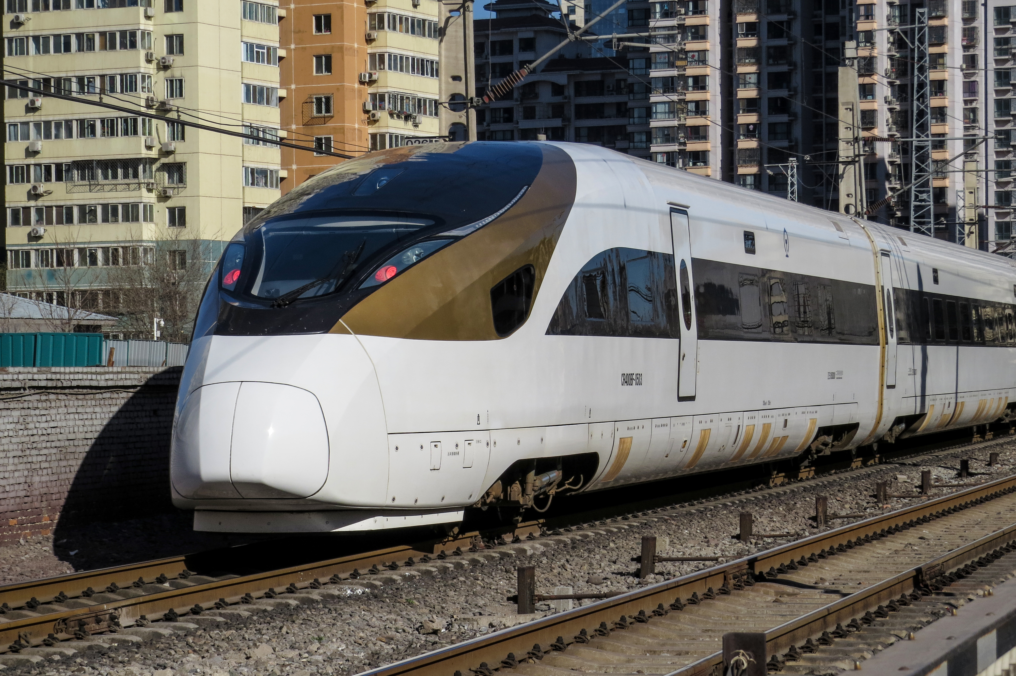 0G66 from the depot.